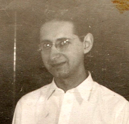 Robert Bloch, 1943.